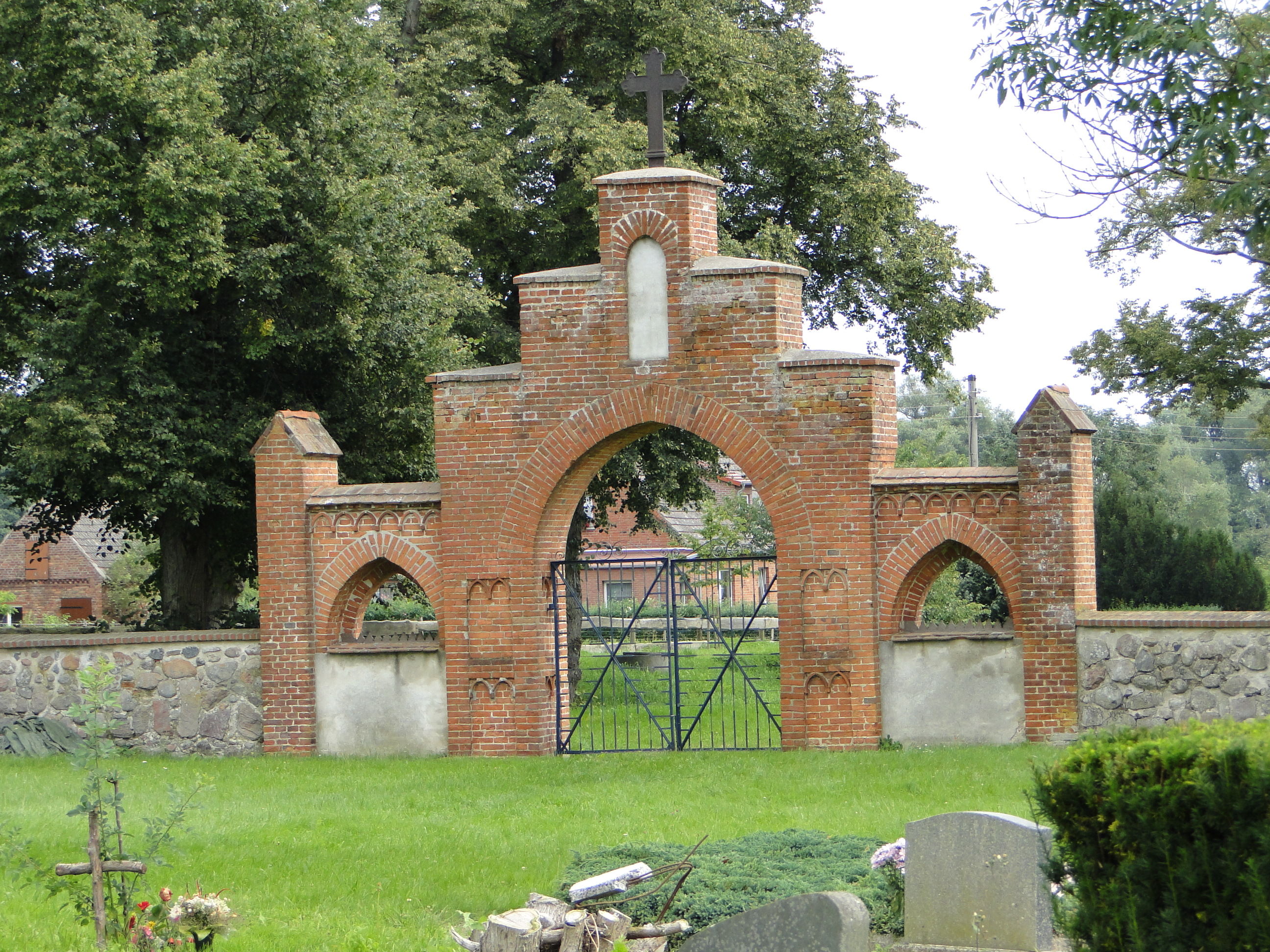 Church in Roga, district Mecklenburg-Strelitz, Mecklenburg-Vorpommern, Germany